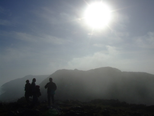 The summit of Bray Head on a winters morning. Mist clearing. Taken by Karl O'Leary, February 2007.